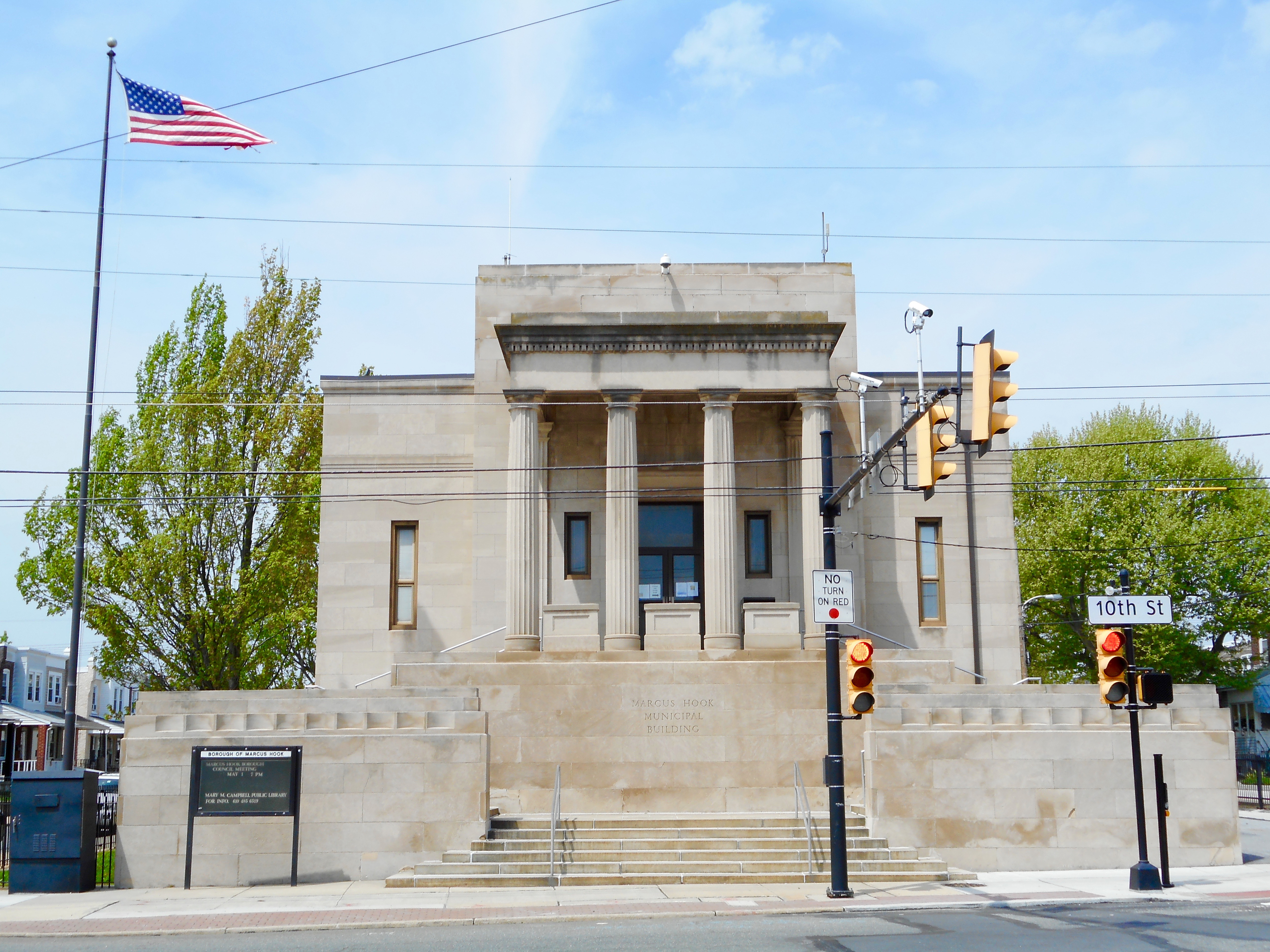 Borough Hall on 10th Street in Marcus Hook, Pennsylvania. Also houses the local public library